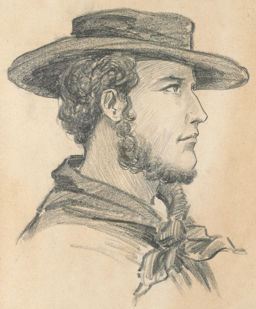 Portrait of Australian explorer John Batman, charcoal and pencil on white paper ; 38.0 x 28.6 cm